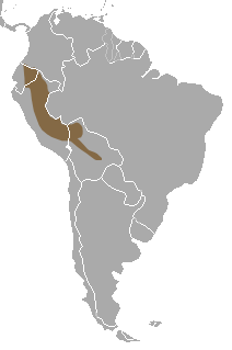 Allen's Olingo (Bassaricyon alleni) range